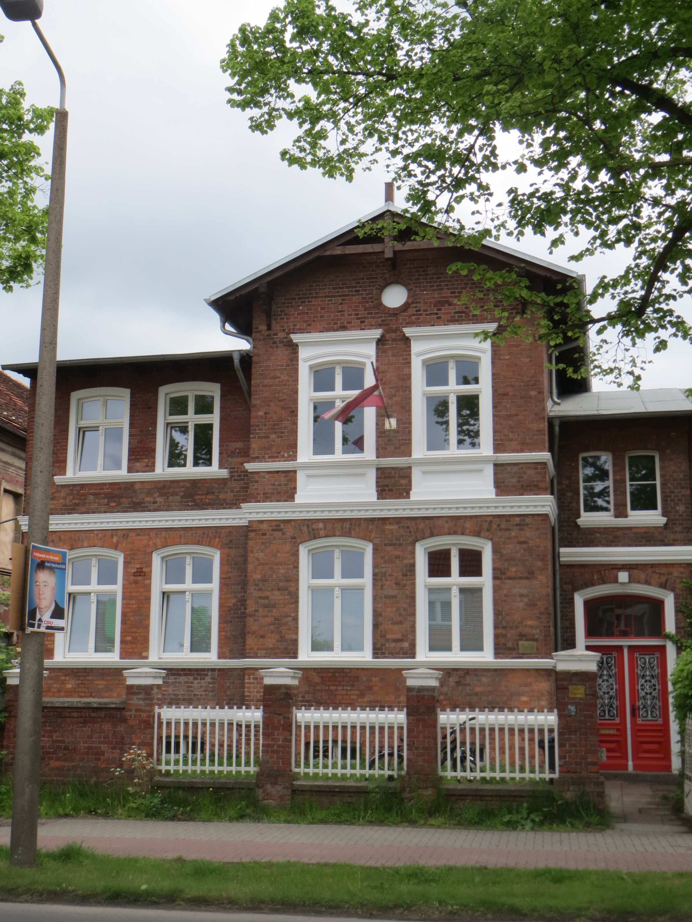 Stralsunder Strasse 9 in Greifswald, Corpshaus "Marchia"